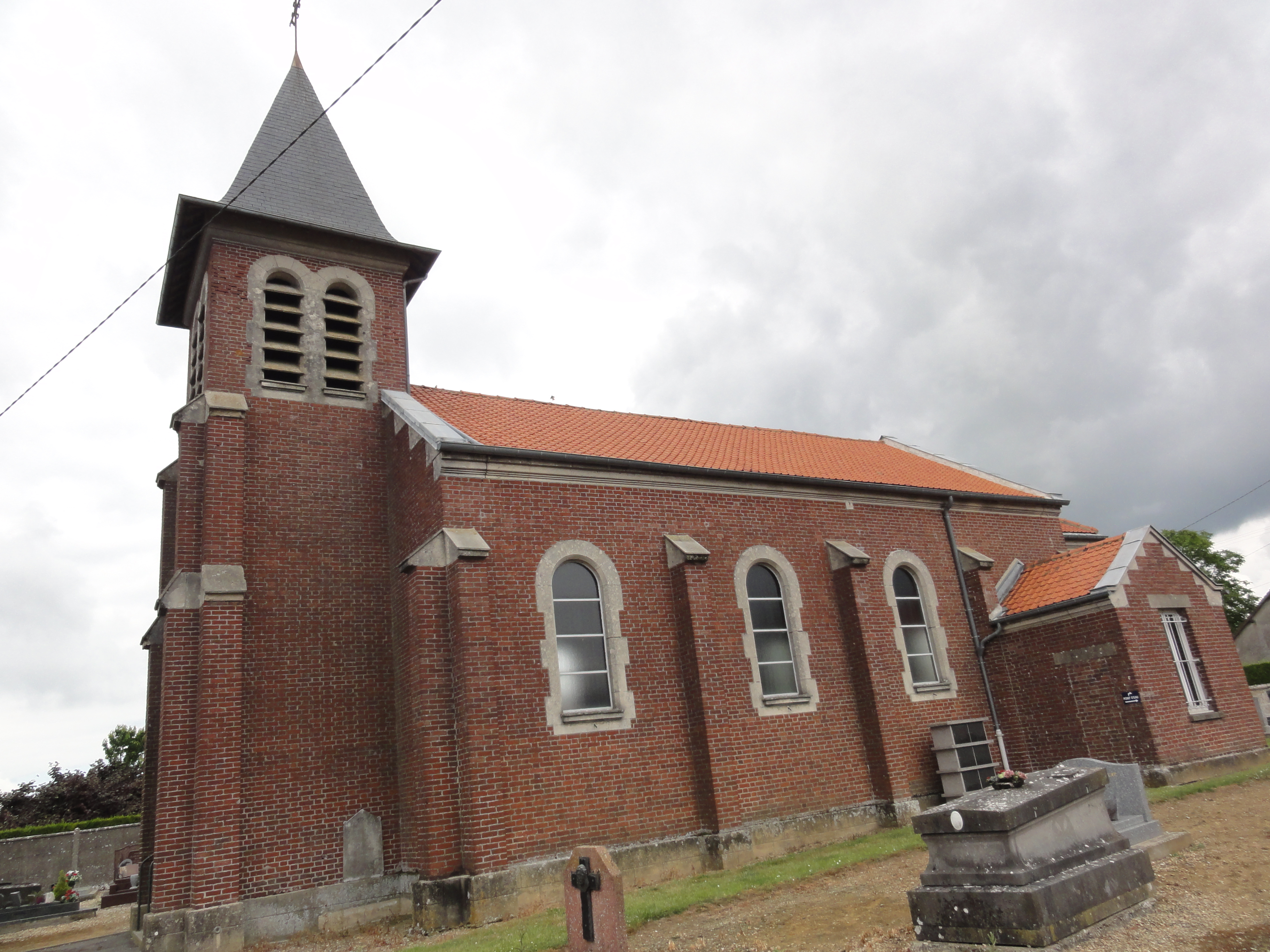 Fresnes-sous-Coucy (Aisne) église